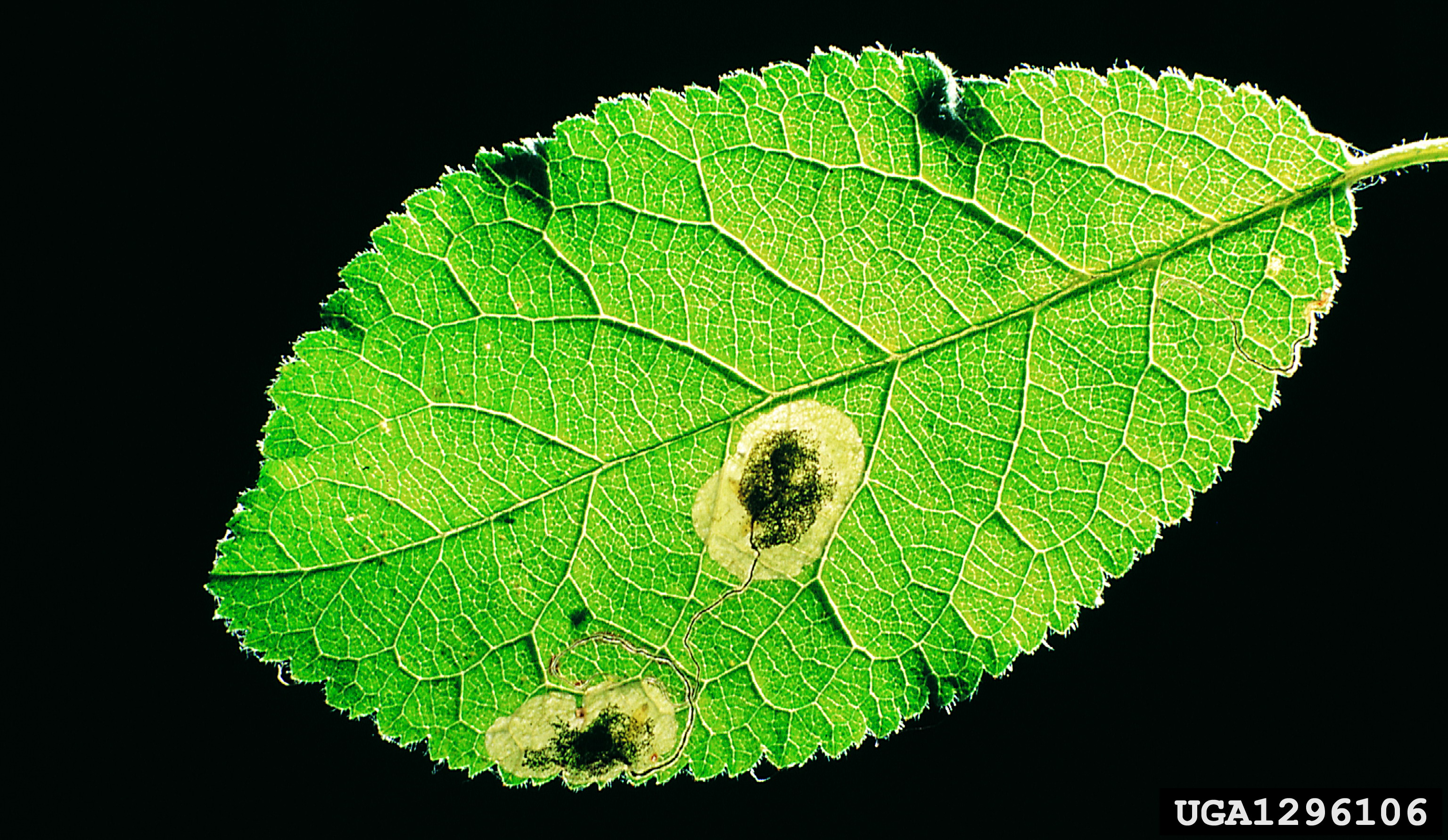 Stigmella plagicolella